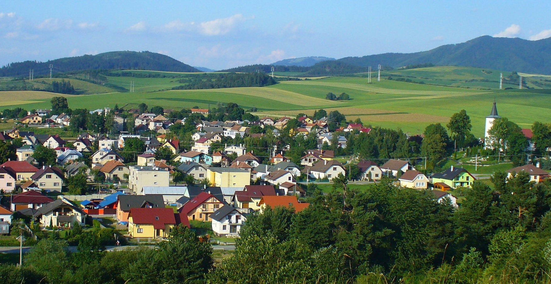 View from hill onto village Diakova. Part of village Drazkovce in front. Region Turiec, district Martin, Slovakia.